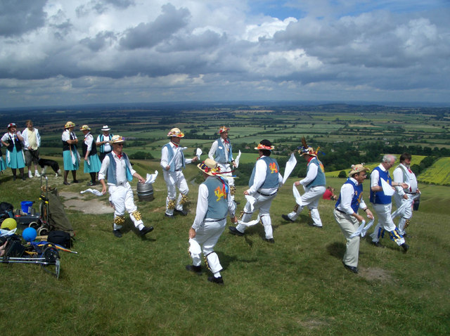 50 years of Morris The Icknield Morris Men celebrated the side's half century with beer and dancing atop the White Horse Hill on the 4th of July 2009. Hopefully the fine view over the Vale of White Horse gives this picture some geographic credibility.